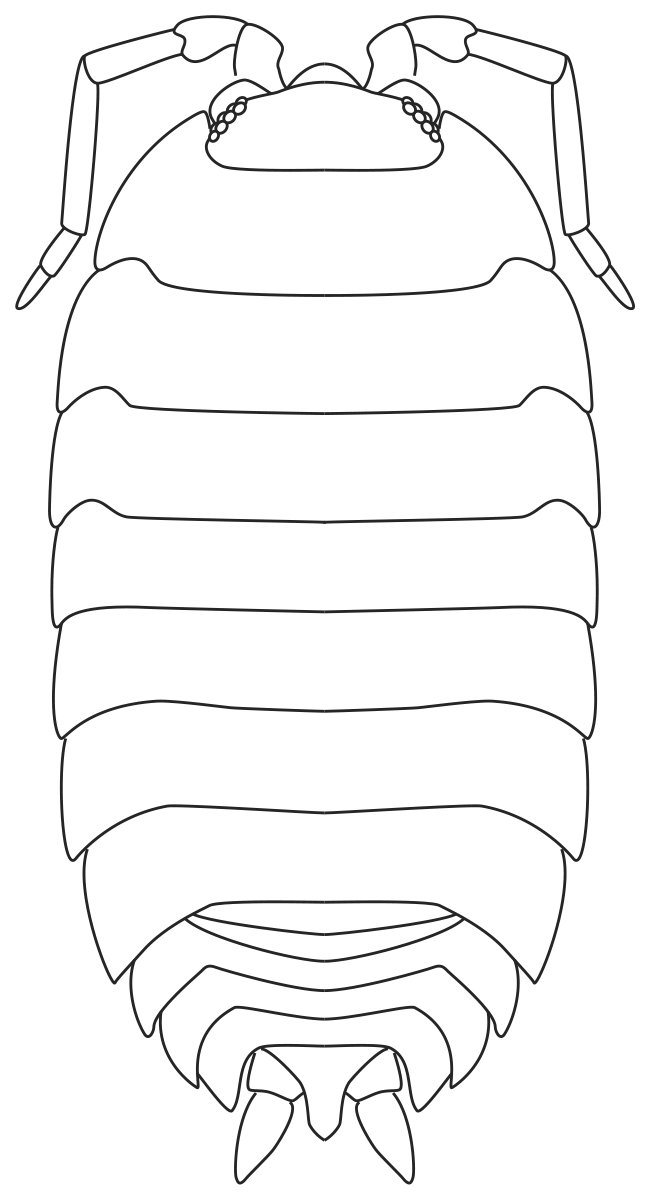 Porcellio scaber